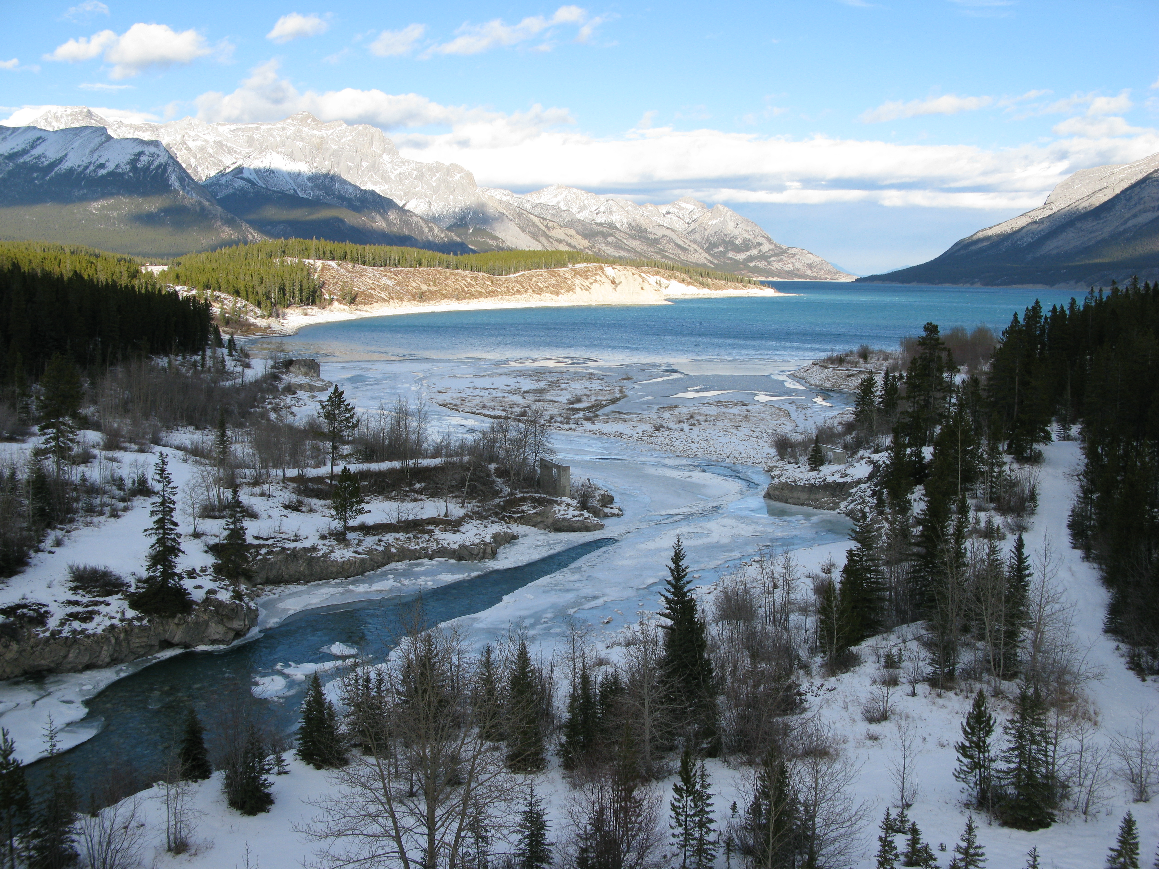 A view of the Cline River near Abraham Lake in Western Alberta, Canada. By Erik Lizee